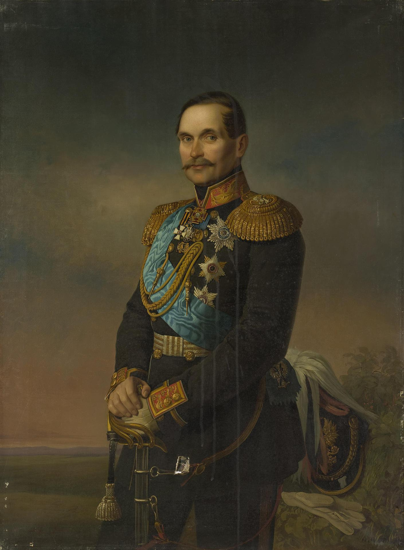 Dolgorukov, Vasily Andreyevich (1803 -1868) russian General.